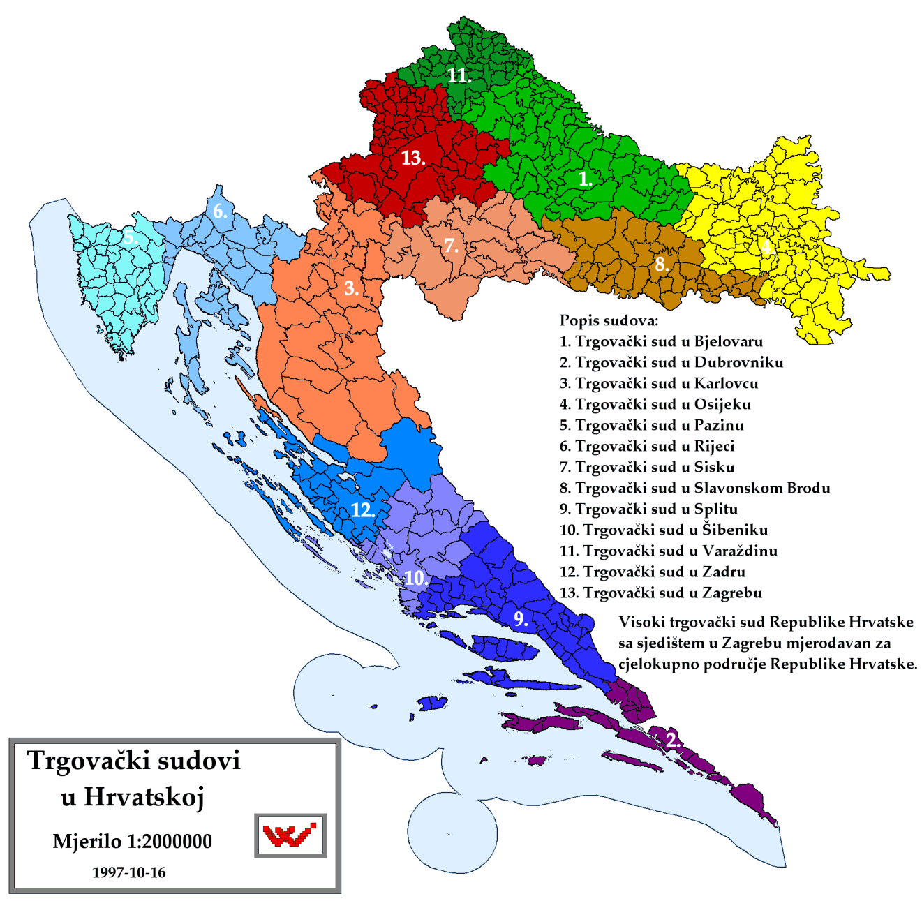 Commercial courts of the Republic of Croatia